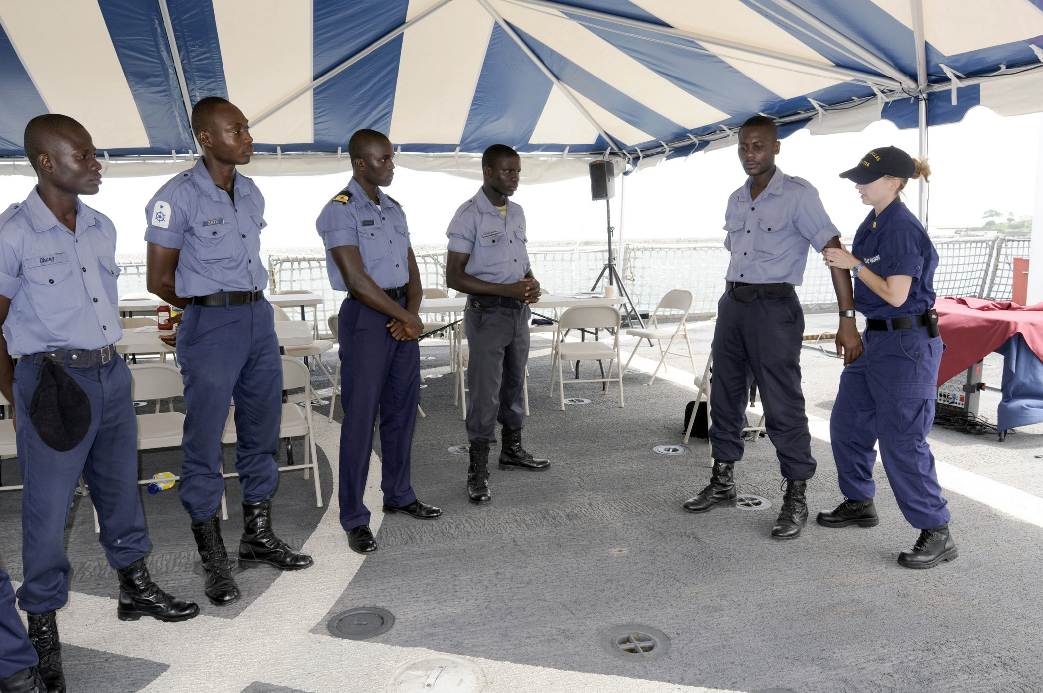 SEKONDI, Ghana (July 15, 2008) Ensign Kate Miller, a crewmember aboard the U.S. Coast Guard Cutter Dallas (WHEC 716), teaches maritime law-enforcement tactics to members of the Ghana Navy. Dallas is deployed to the region under the direction of Commander, U.S. Naval Forces Europe-Commander, U.S. 6th Fleet, in support of Africa Partnership Station (APS). APS is an initiative aimed at strengthening global maritime partnerships through training and other collaborative activities in order to improve global maritime safety and security.